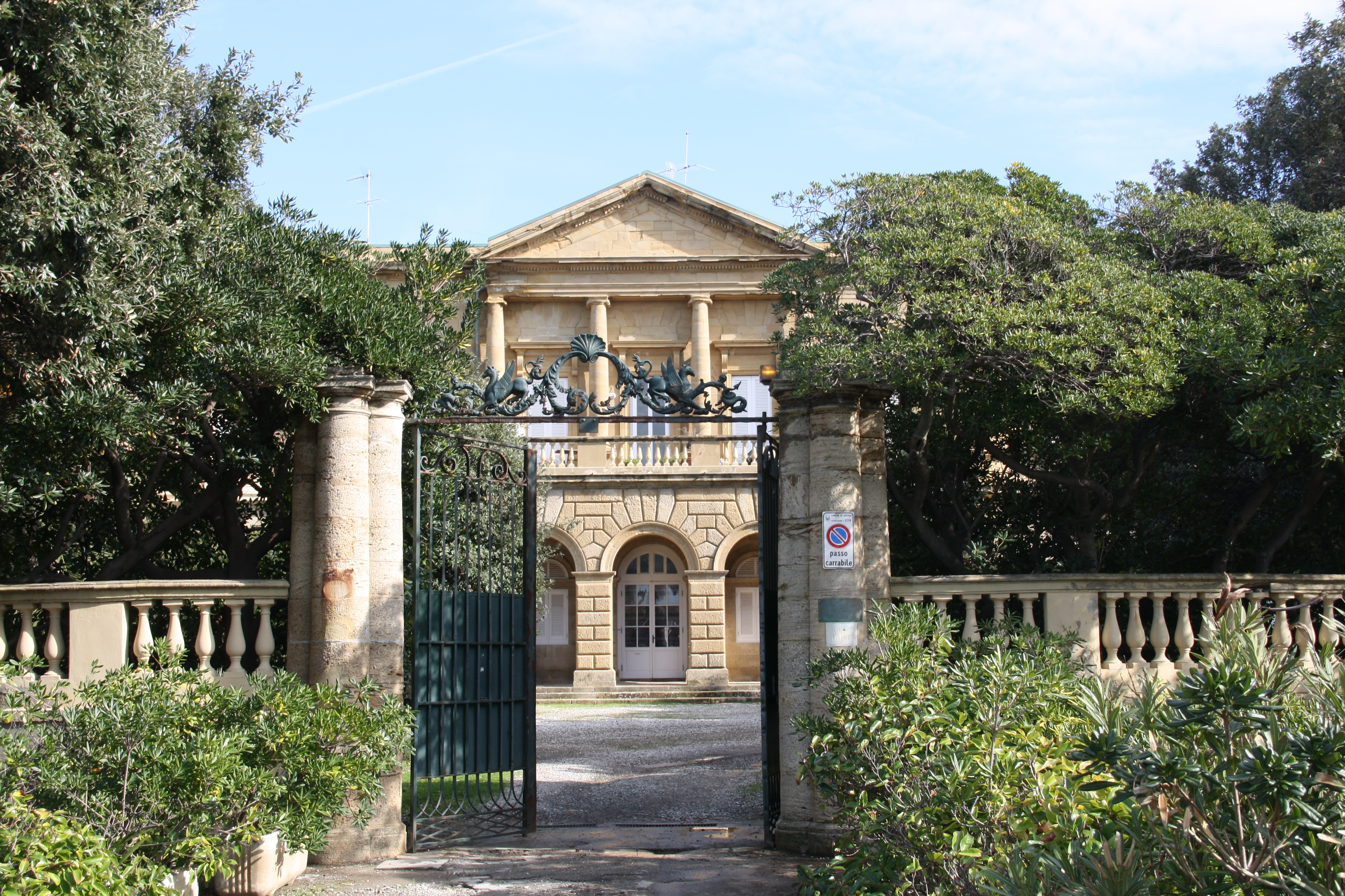 Italy, Livorno, Viale Italia, Villa Montanelli. The villa, situated in front of the pinewood called Rotonda di Ardenza, was built by Franco Montanelli in the mid nineteenth century and was sold to Carolina Giera widow Bacci in 1893. In 1901 it was bought by Ernesto Hne and in 1923 was absorbed by State property. Nel 1930 the villa was of Vittoria Corghi widow Palloni and four years later returned to the family Hne in the person of Antonietta Palloni widow Hne.